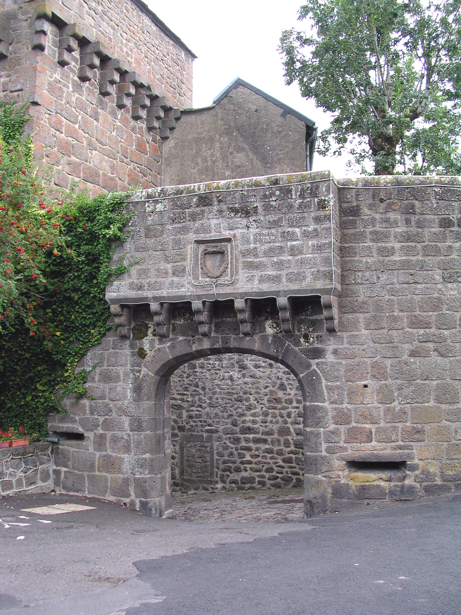 Besse-et-Saint-Anastaise (Puy-de-Dôme, France), the Meze gate